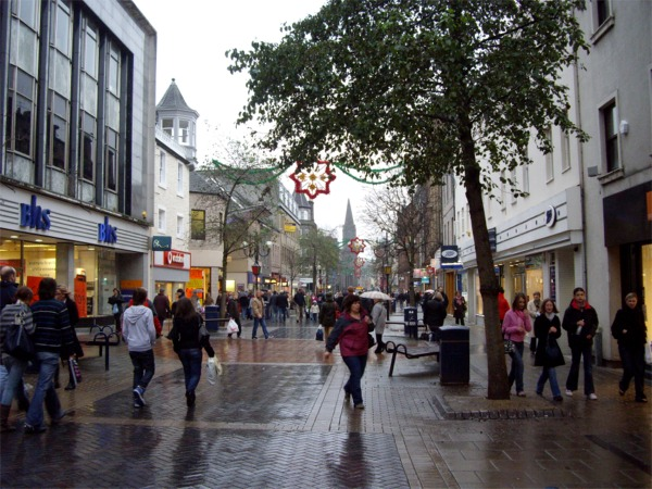 City centre Perth